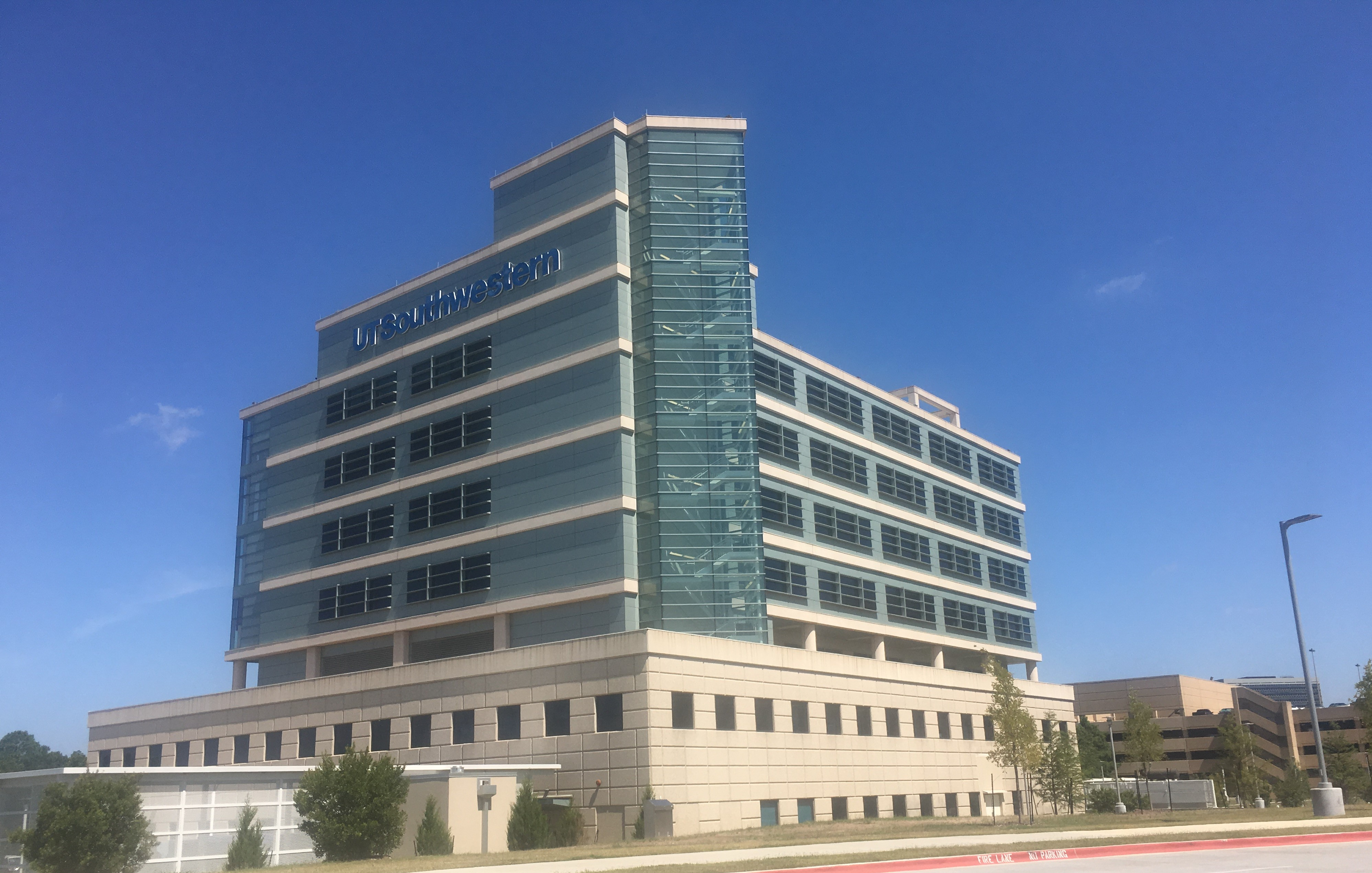 Outpatient Bldg, West campus, UTSW